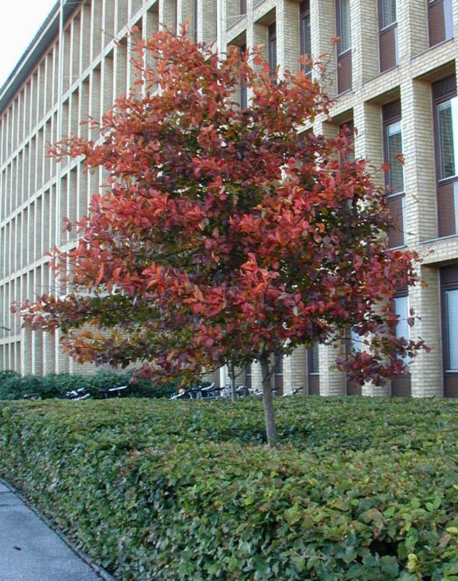 Crataegus crus-galli, habit in autumn colouring.